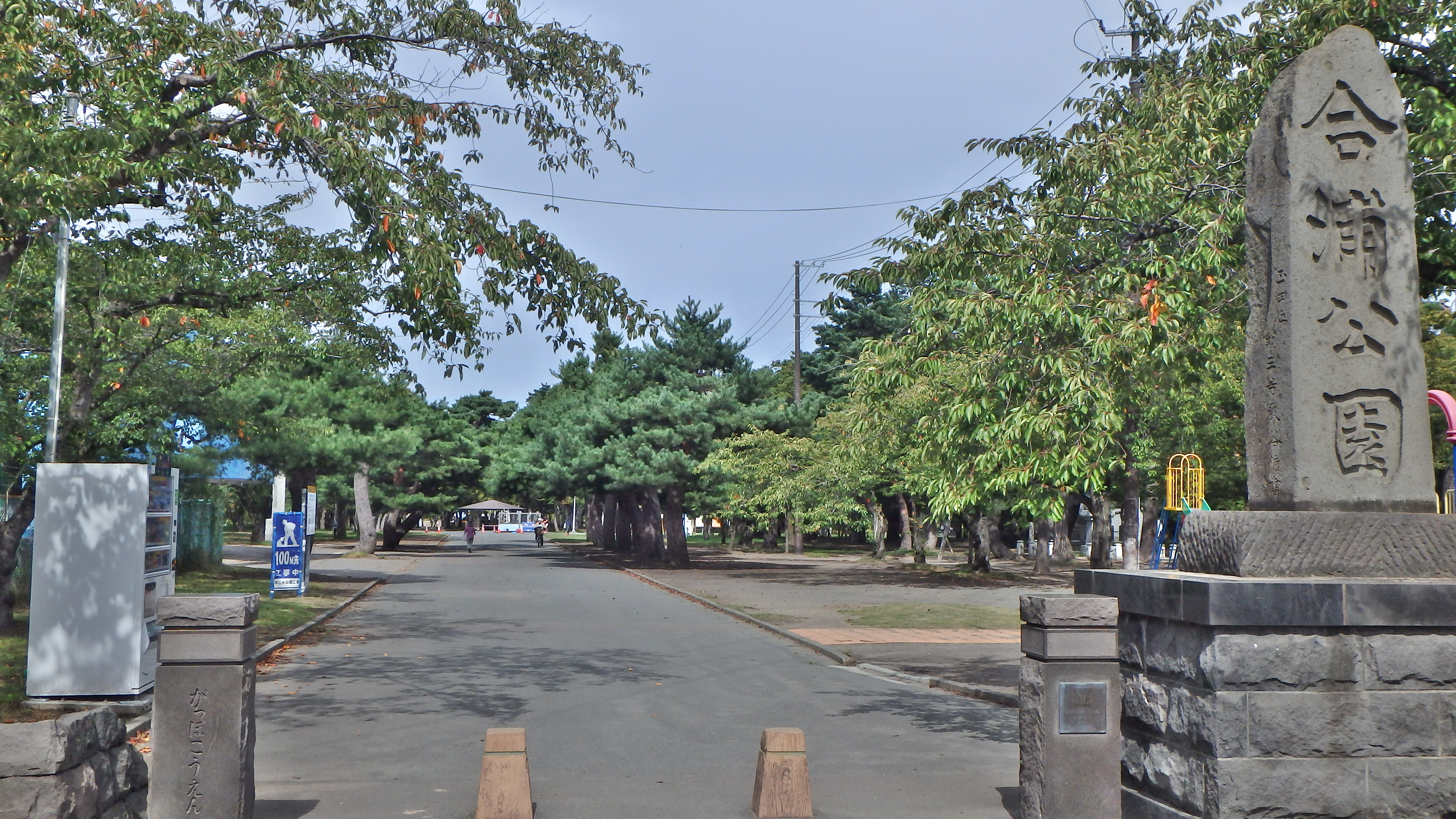 Gappo-kōen Park ,Aomori prefecture,Japan